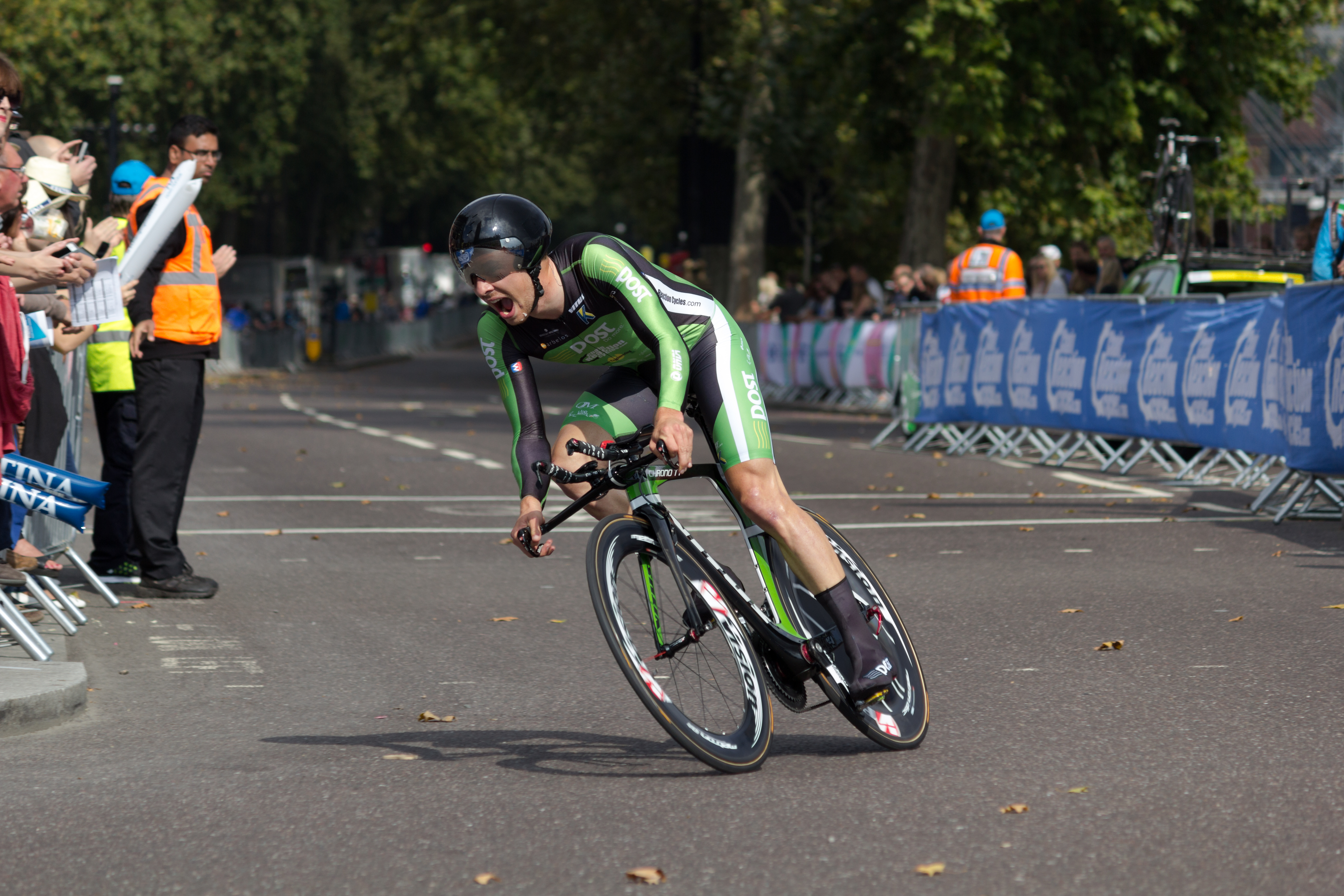 Tour of Britain 2014 stage 8a - London time trial